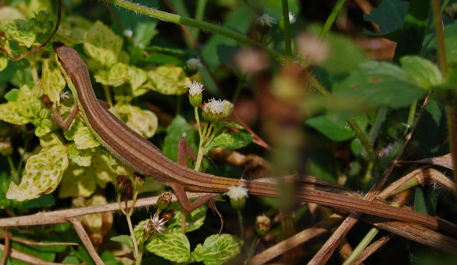 Takydromus sexlineatus, female (pregnant) from Darmaga, Bogor, West Java, Indonesia